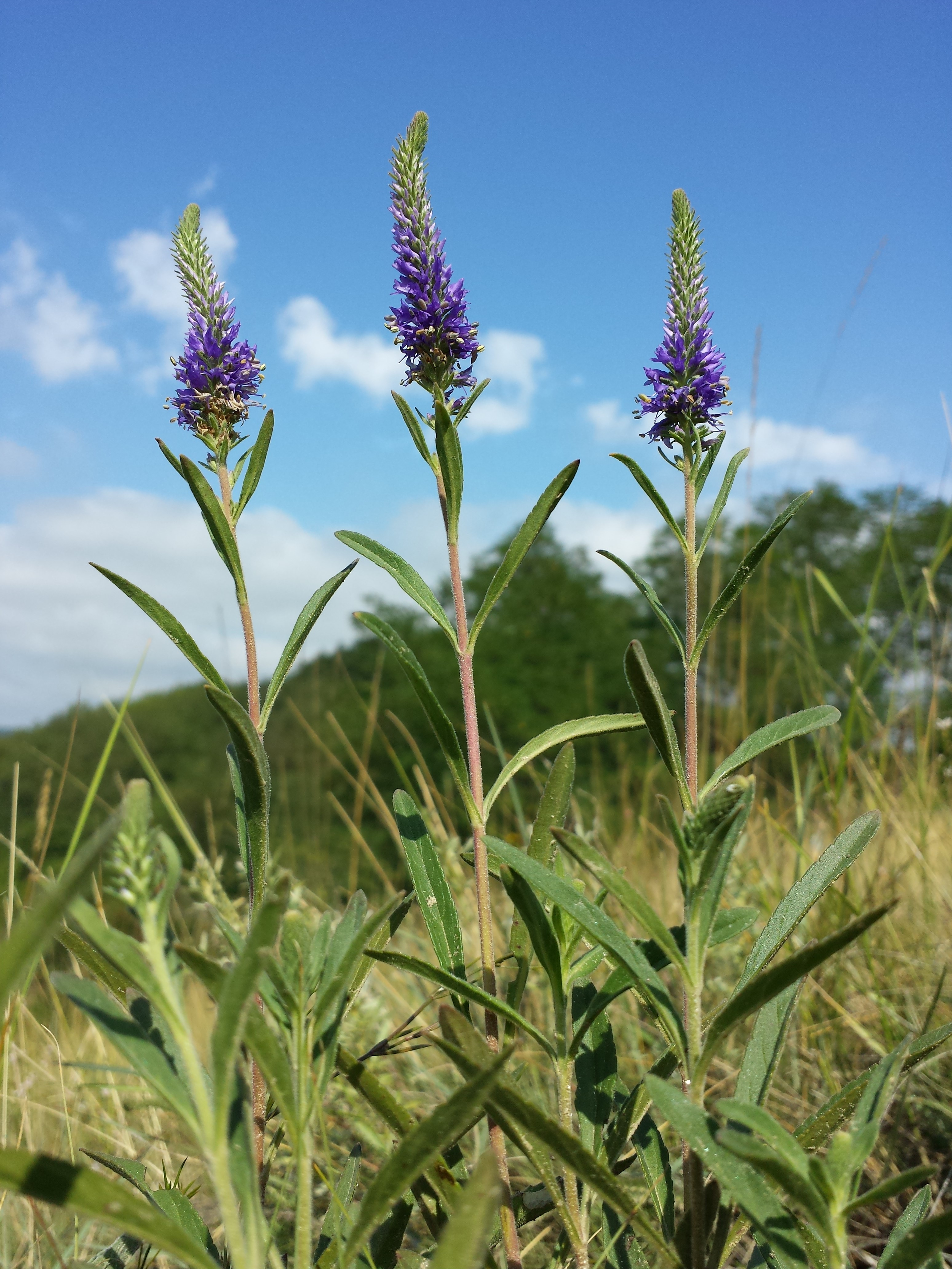 Habitus Taxon: Veronica spicata (sensu Fischer et al. EfÖLS 2008 ISBN 978-3-85474-187-9) Location: Loess hill to the west of Großebersdorf, district Mistelbach, Lower Austria - ca. 200 m a.s.l. Habitat: dry grassland on Loess